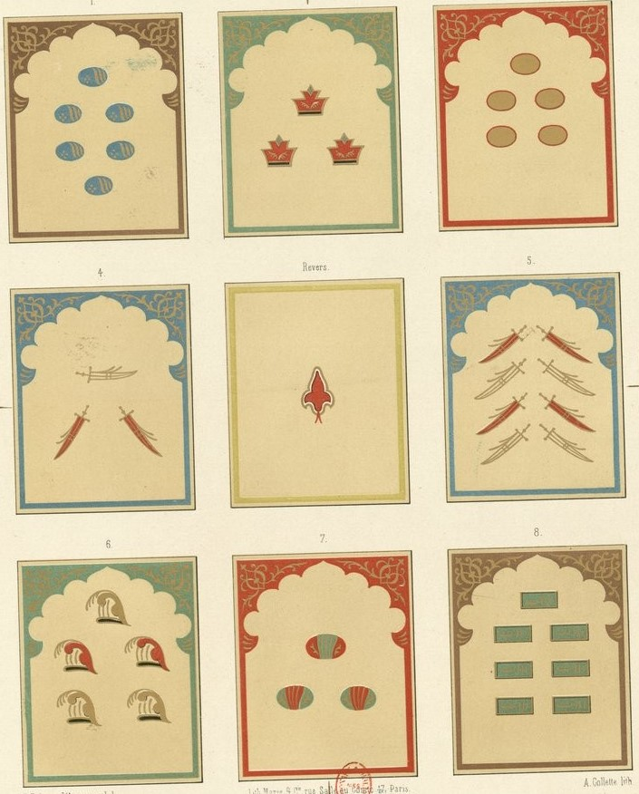 Persian style ivory playing cards purchased in Cairo by Émile Prisse d'Avennes during the second quarter of the 19th century.